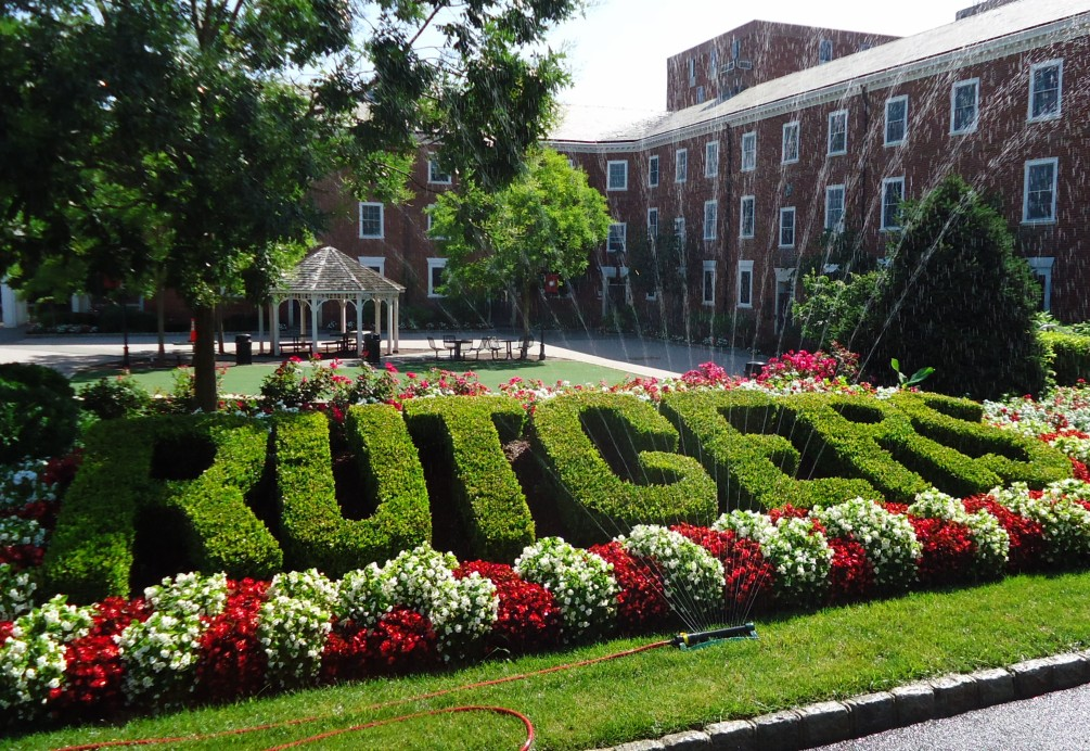 "Rutgers" spelled out in a hedge on the College Avenue campus in New Brunswick, New Jersey.